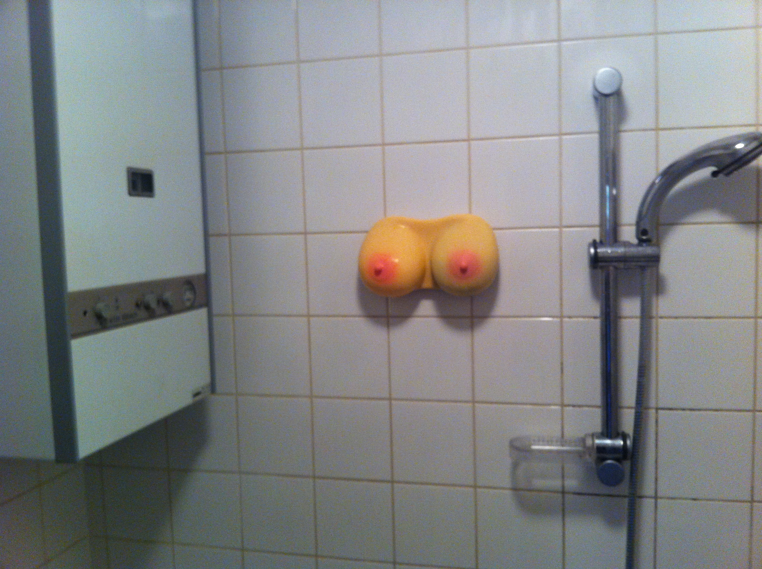 Showere gel/shampoo dispenser